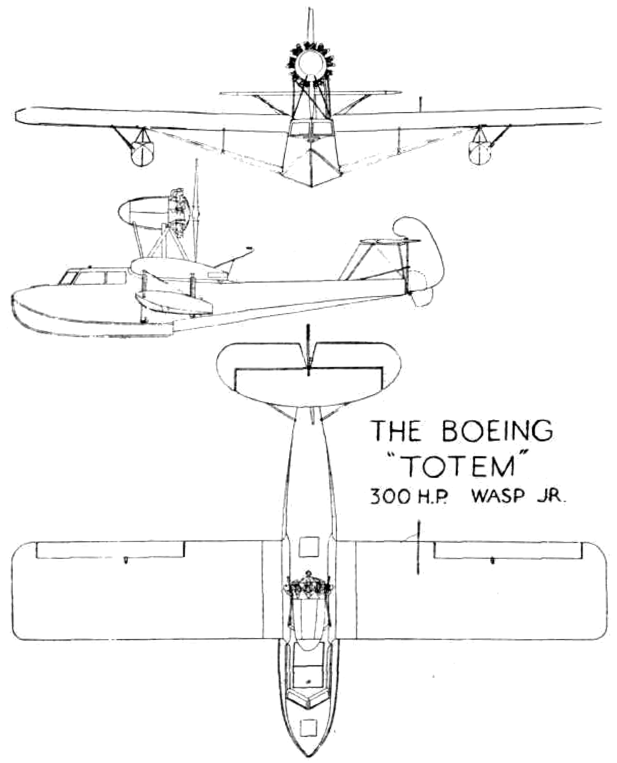 Boeing-Canada Totem 3 view from Flight Magazine 1932-09-23